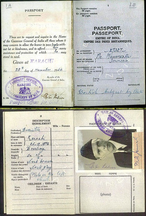 Photo of Muhammad Ali Jinnah's passport